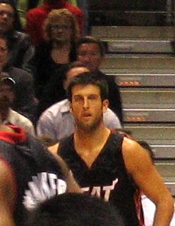 Jason Kapono in a Miami Heat/Milwaukee Bucks game, December 14, 2005.